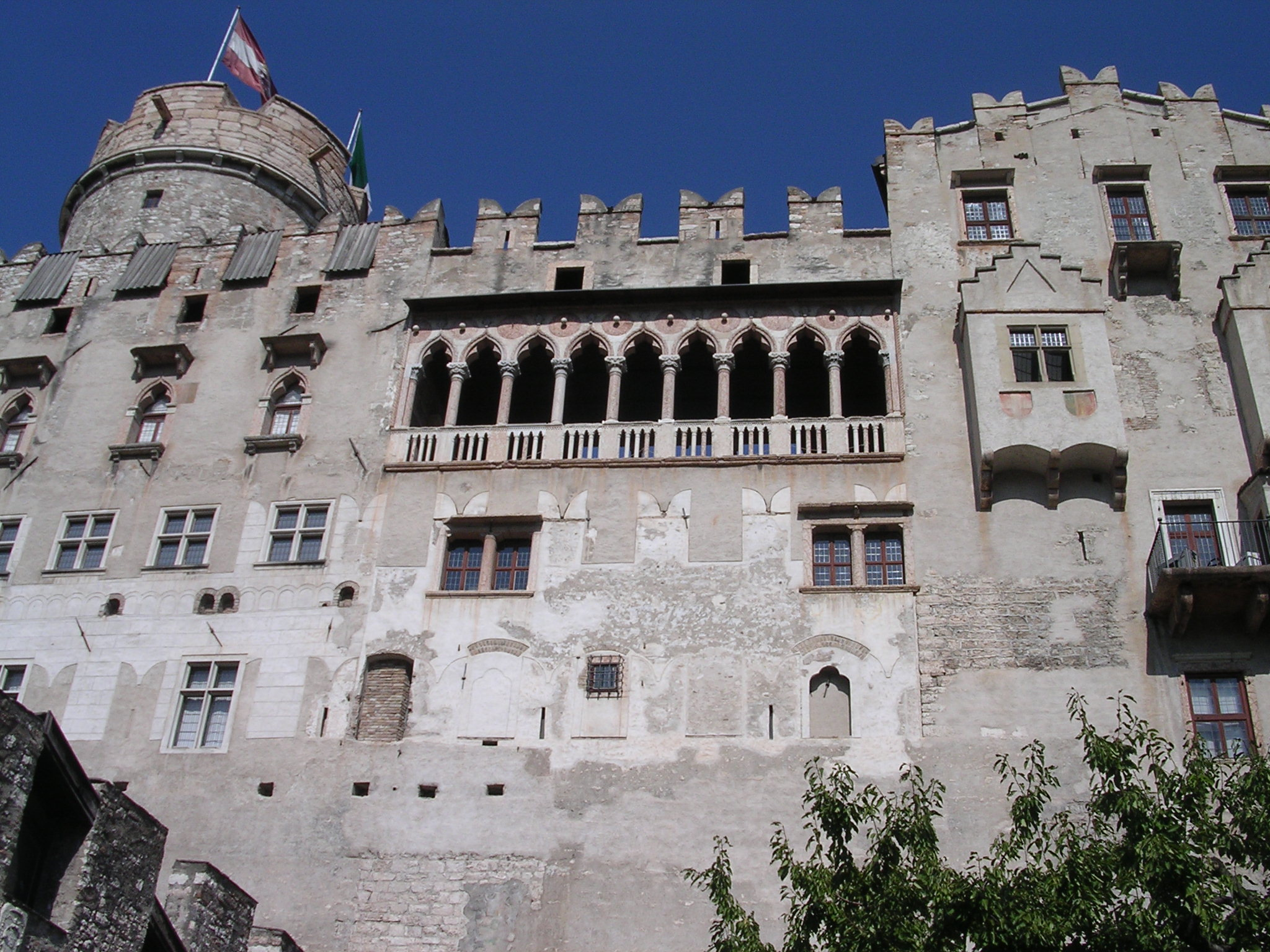 Castello del Buonconsiglio, Trento (My trip in 2003 to Trentino Alto Adige, Italy)